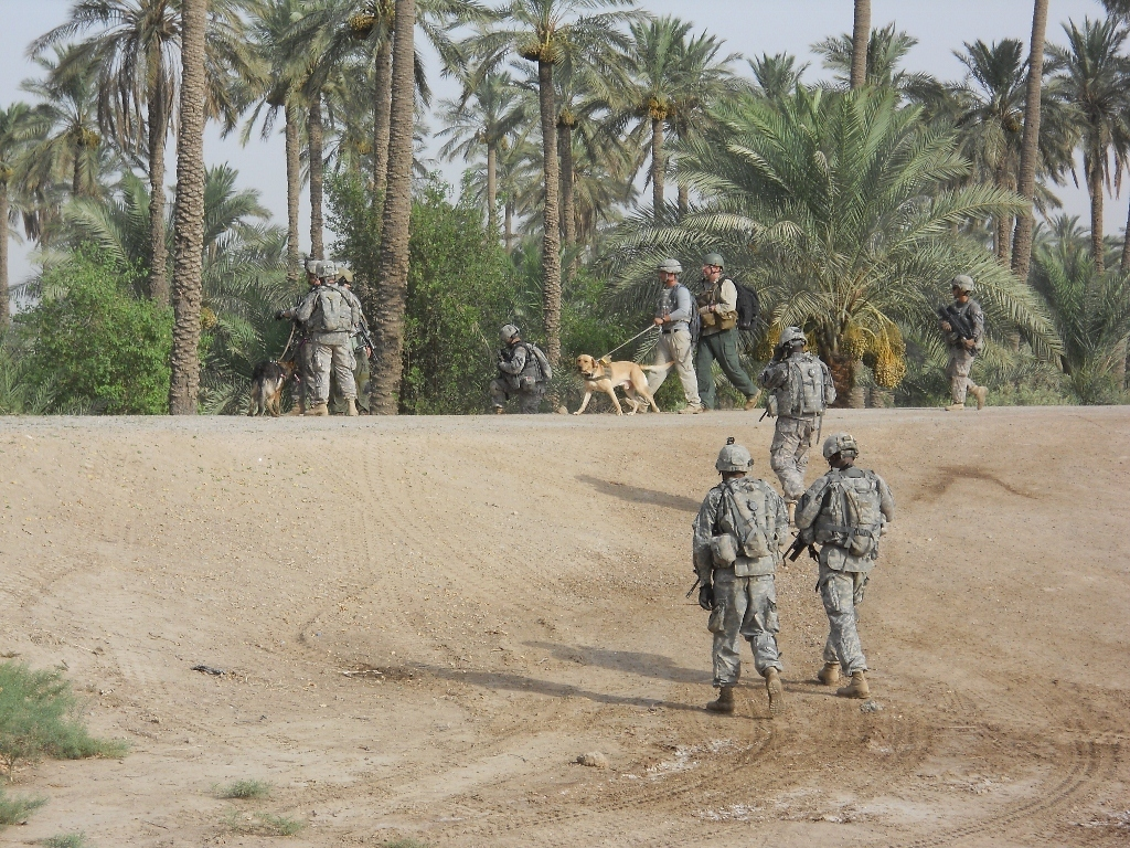 Soldiers from Bulldog Company, 3rd Battalion, 8th Cavalry Regiment, 3rd Advise and Assist Brigade, 1st Cavalry Division search near the city of Amarah for American and British remains on July 21, 2011. The U.S. soldiers were joined by Iraqi army personnel and used search dogs and engineer equipment to help with the search.